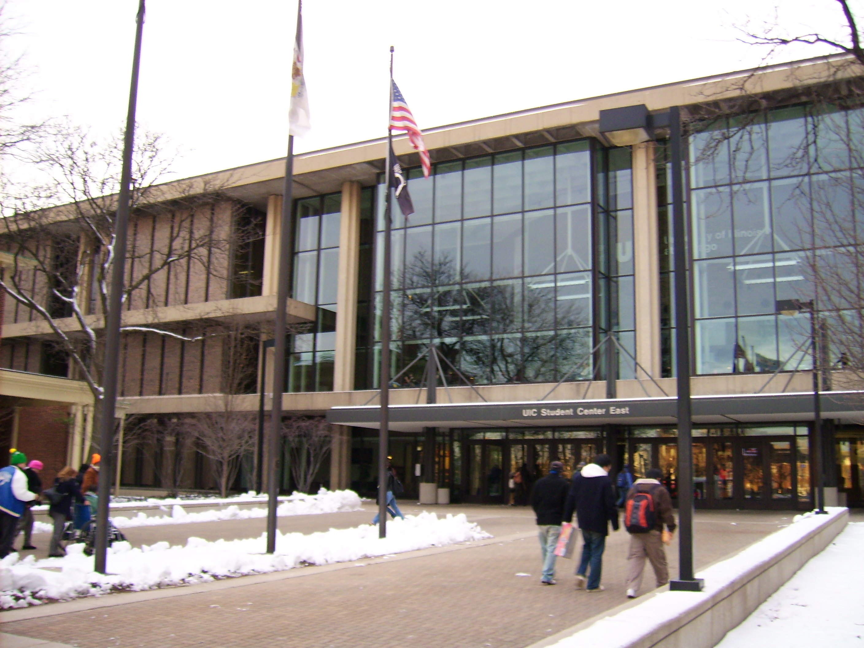 The University of Illinois at Chicago Student Center East